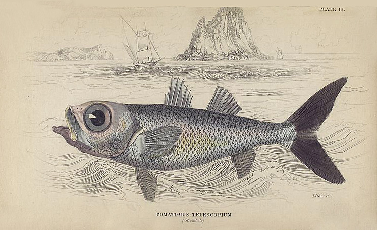 Pomatomus telescopium (Stromboli). 1835. (The natural history of fishes of the perch family. Illustrated by thirty-six plates coloured; with memoir and portrait of Sir Joseph Banks, bart., Series : The naturalist's library. Ichthyology. vol. I.)